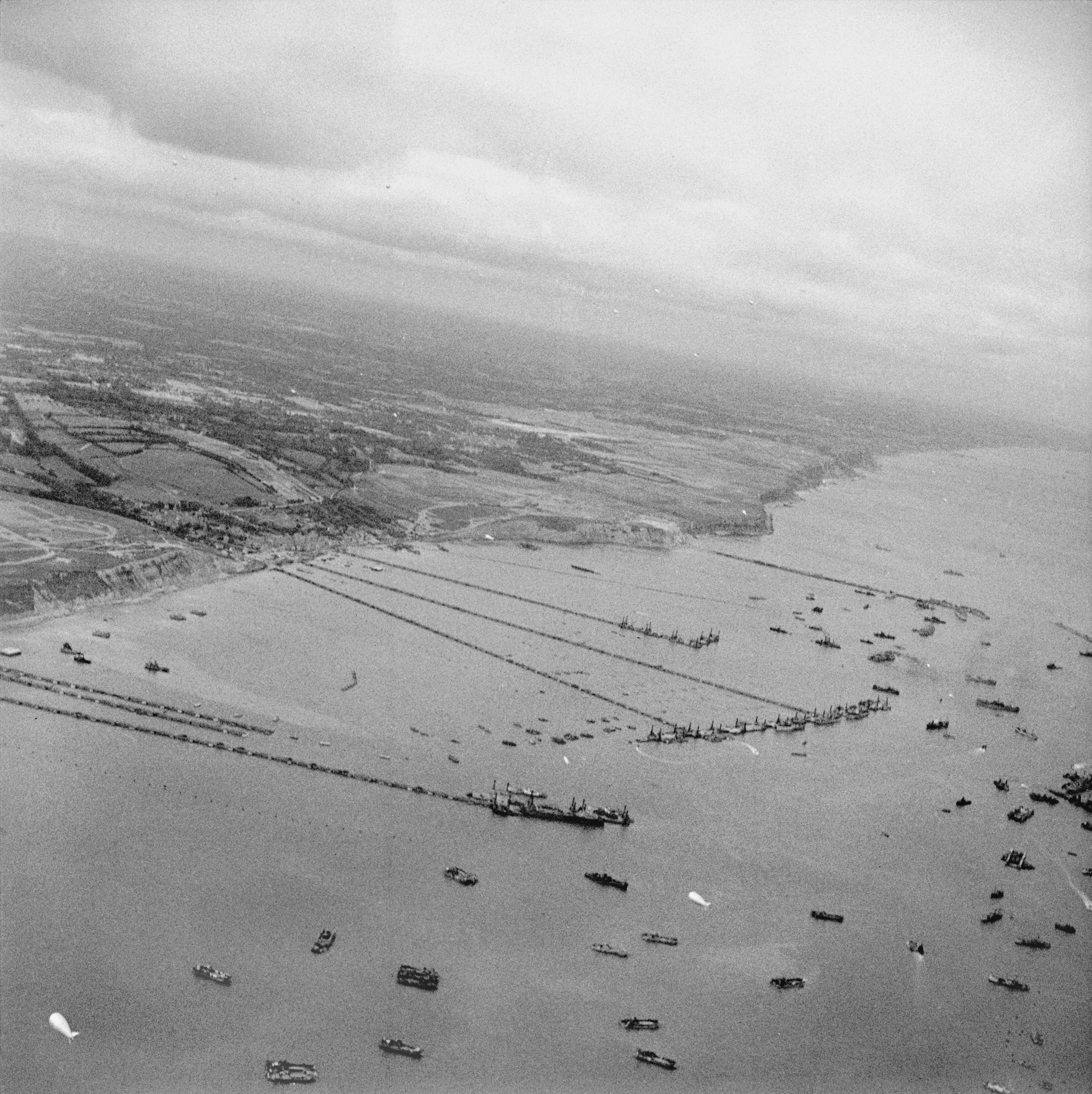 The Mulberry artificial harbour off Arromanches in Normandy, September 1944. An aerial oblique photograph of the Mulberry Harbour off Arromanches. Artificial harbours were constructed along the beach shortly after D-Day so that armoured vehicles and heavy guns could be landed.